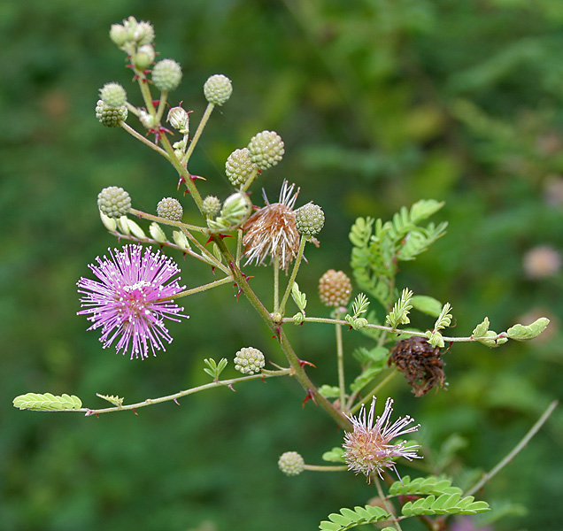 Gulabi babhul Mimosa hamanta in Hyderabad , India.